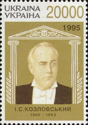 Stamp of Ukraine